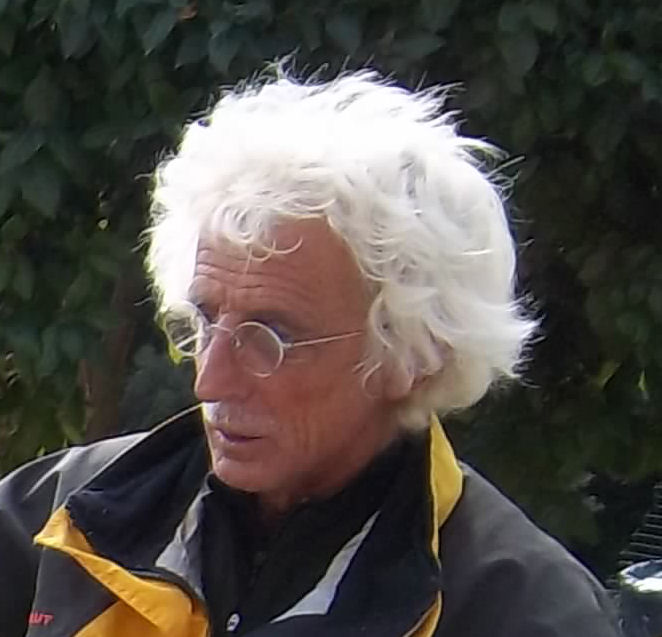 Swiss Climber and Mountain Guide Walter Müller (1948-2013)